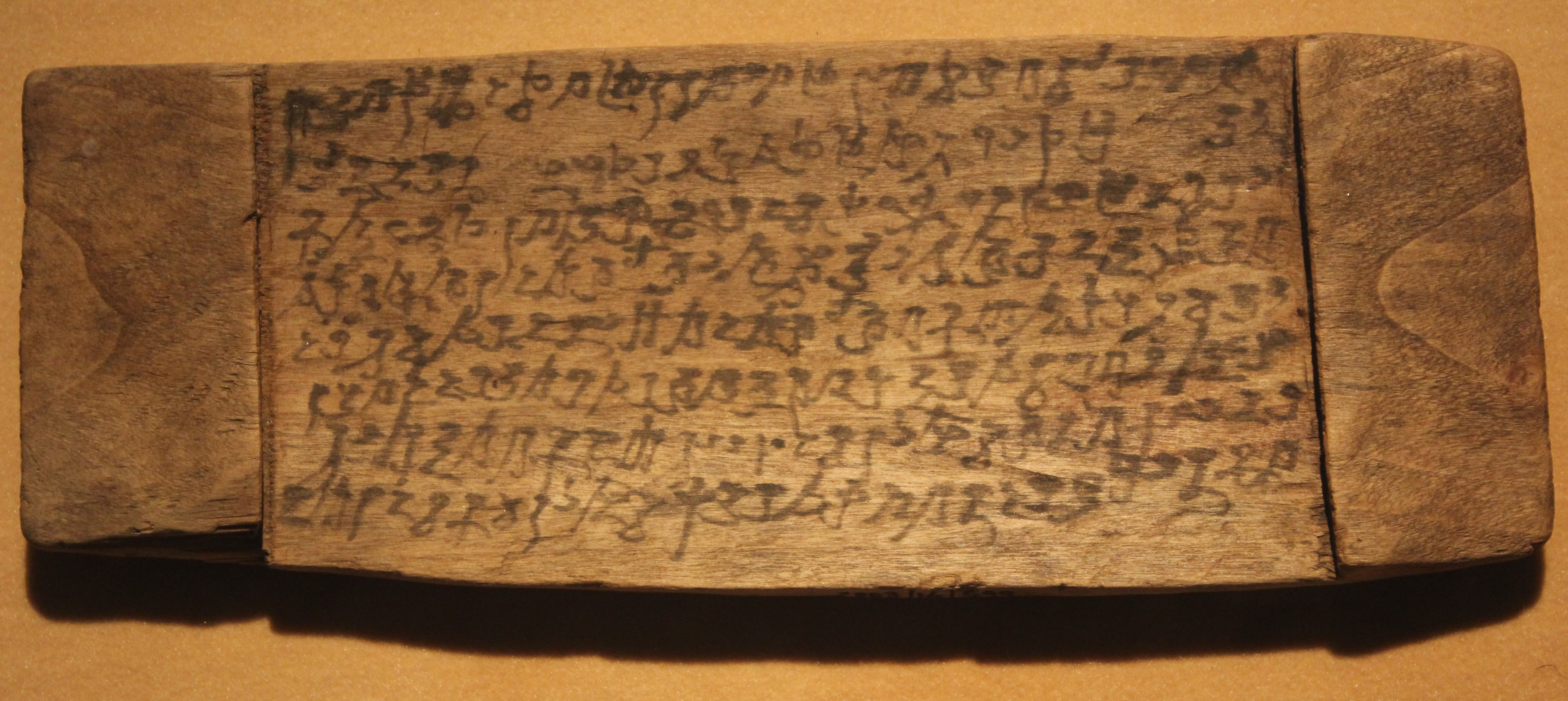 Kharoshti script on a wooden plate